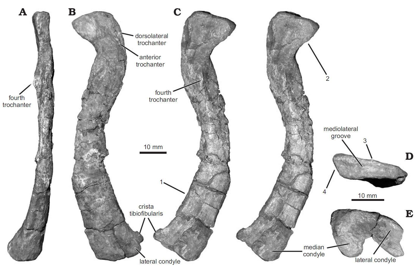 Isolated left femur referred to Diodorus scytobrachion gen. et sp. nov., Timezgadiouine Formation, Late Triassic, MNHM−ARG 37 in anterior (A), lat− eral (B), medial (stereopair) (C), proximal (D), and distal (E) views. Phylogenetically important character states visible on this element include: 1, distal condyles of femur divided posteriorly between 1/4 and 1/3 the length of the shaft (CS 223[1], synapomorphy of all silesaurids except Pseudolagosuchus); 2, notch ventral to the proximal head of the femur (CS 207[1], synapomorphy of Silesauridae); 3, posteromedial tuber absent on the proximal portion of the femur (CS 204[2], synapomorphy of all silesaurids except Pseudolagosuchus and Asilisaurus); 4, flat medial articular surface of the femur head in dorsal view (CS 206[1], synapomorphy of Silesaurus, Sacisaurus, and Diodorus).